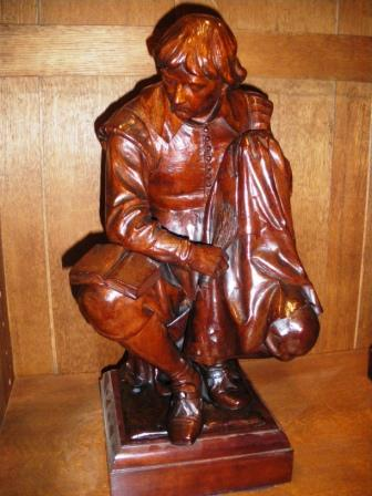 One of Thomas Nicholls' mahogany carvings of characters from Alexandre Dumas' "The Three Musketeers" at 2 Temple Place on the Embankment in London. There are seven such figures which used to sit on the newel posts of the main staircase. This figure is of Bazin, the valet to Aramis. Bazin was a studious person who later became a lay brother. Nicholls carves him brushing his master's clothes whilst studying theology.